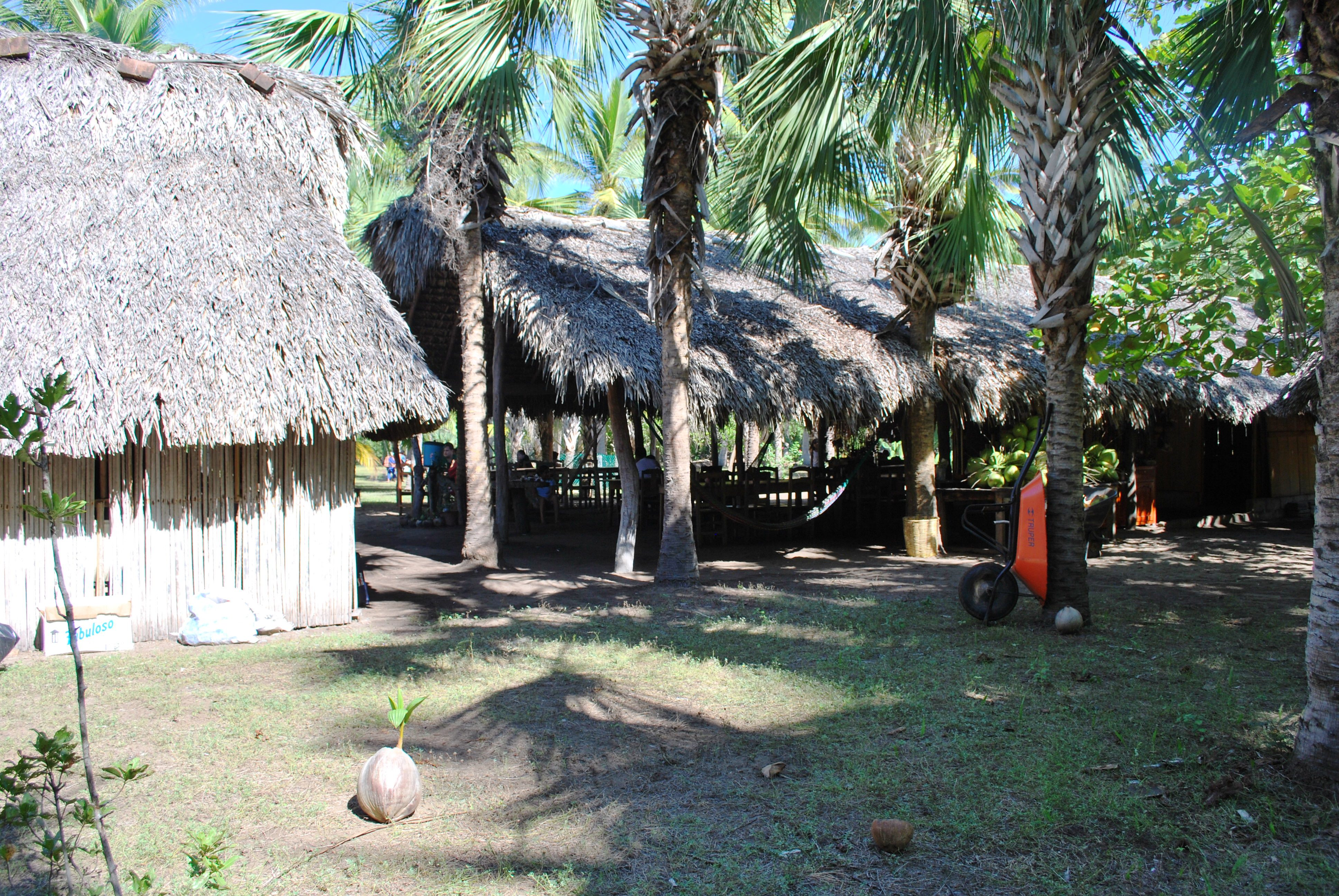 Restaurant on Uma Island in the lagoon of La Ventanilla, Tonameca, Oaxaca, Mexico